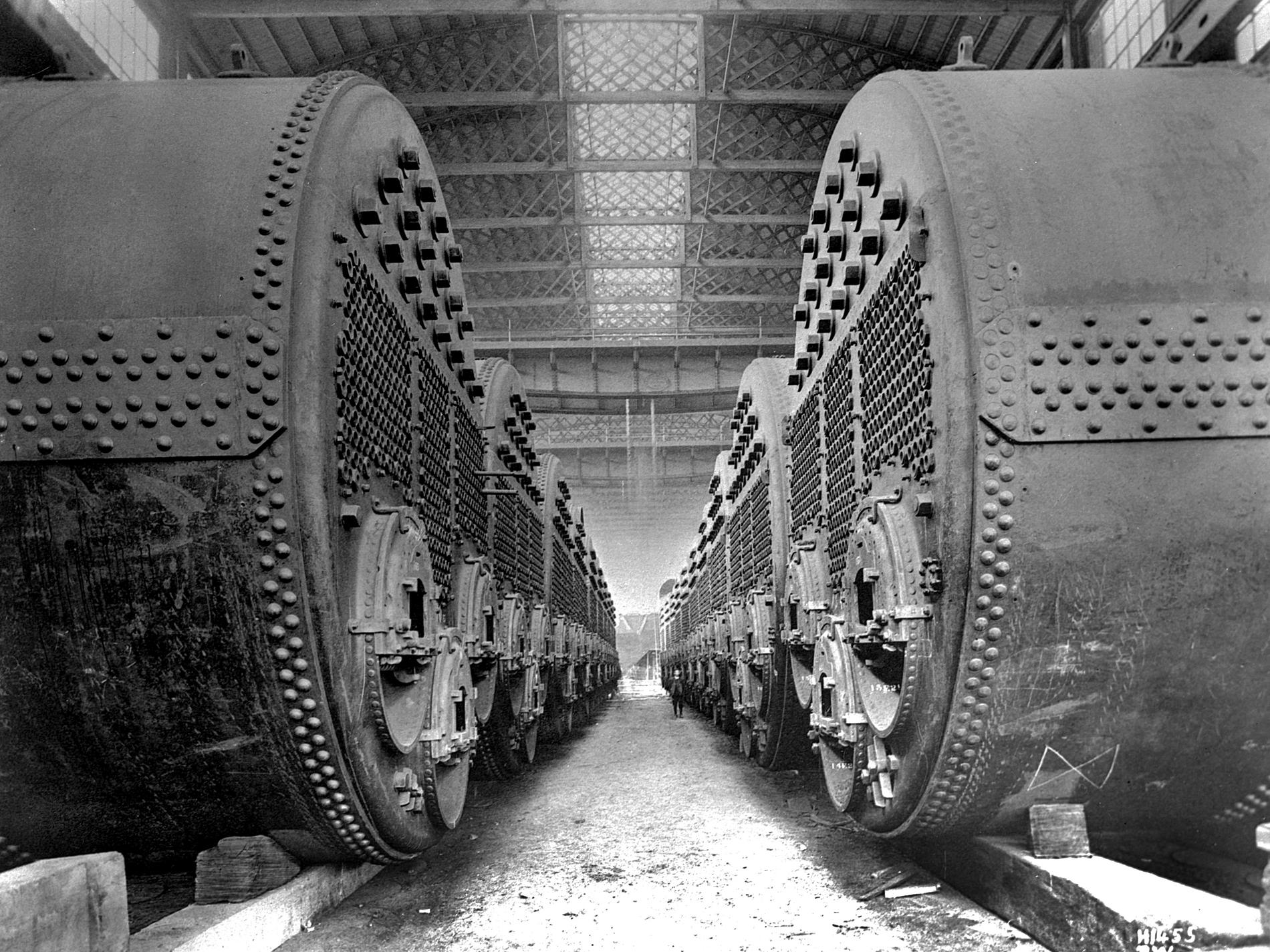 Photo of Olympic's boilers, fully assembled and ready to be installed in the ship.